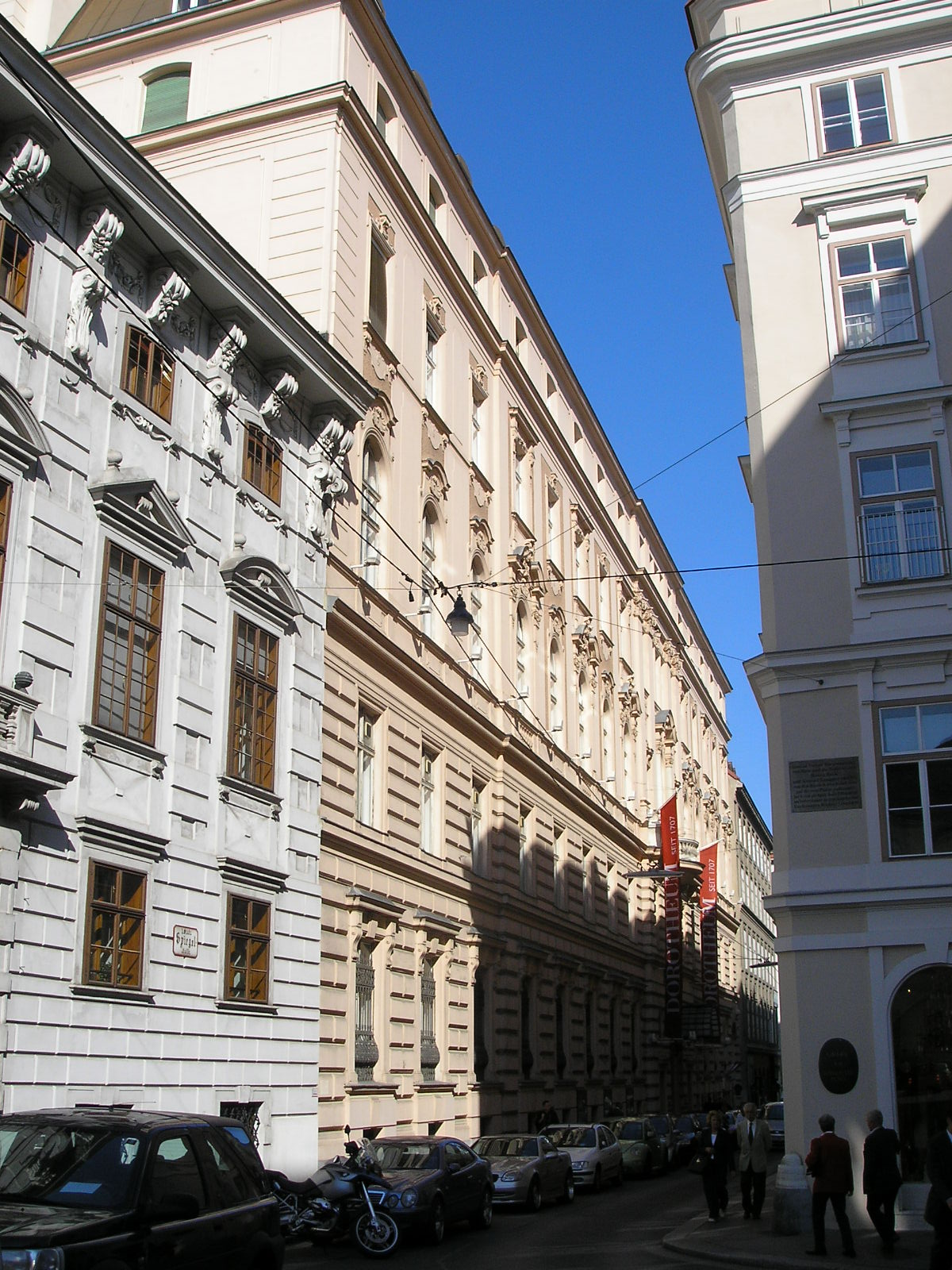 Image of the Palais Dorotheum in Vienna's first district Innere Stadt, today headquarters of the Dorotheum auction house.